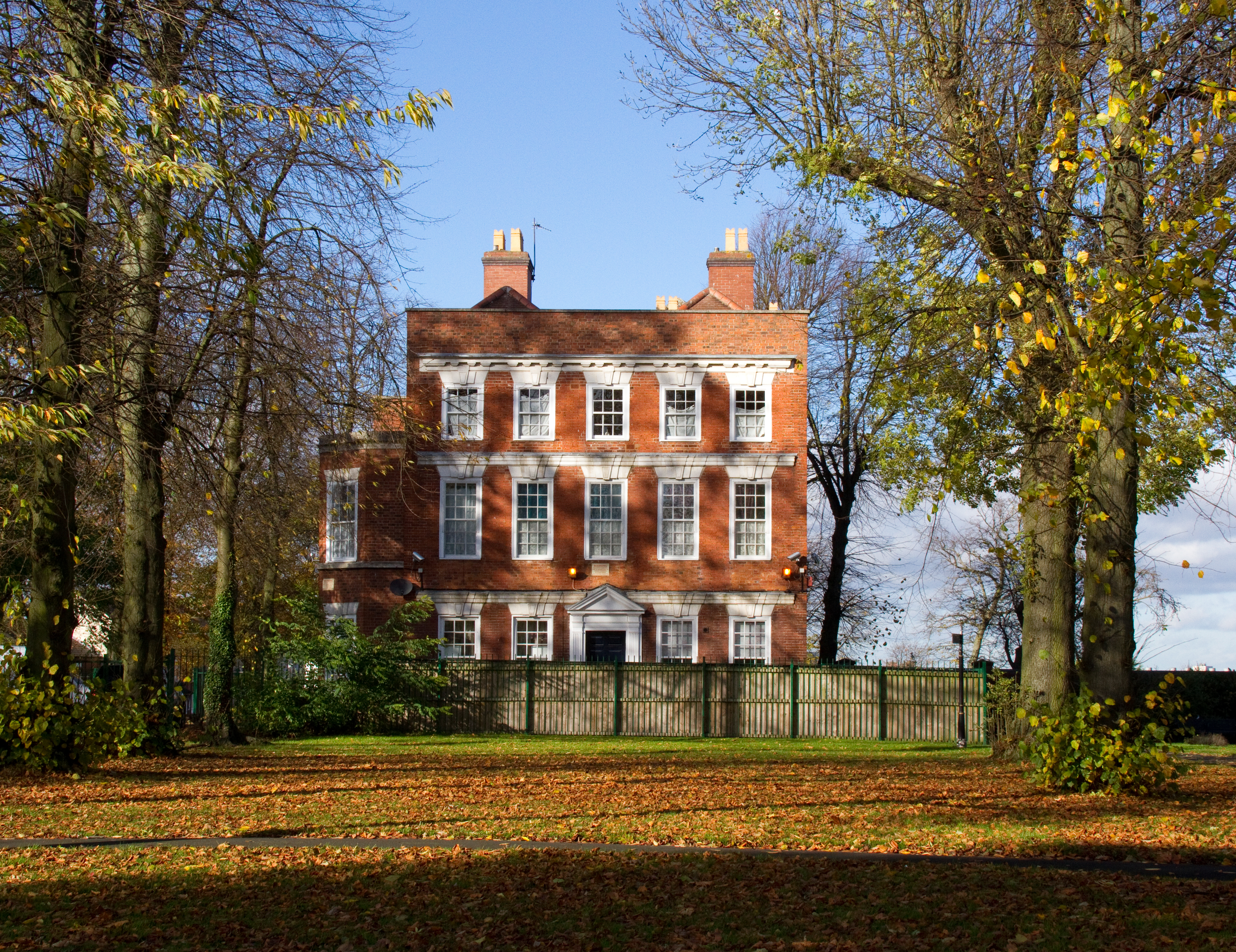 "Farm, Sparkhill", alias "Farm, County Warwick", etc., now known as "Lloyd's Farmhouse, Farm Park, 139 Sampson Road, Birmingham" (listed building text[1]), a grade II* listed building. The historic residence from 1742 to 1912 of the Birmingham branch of the Lloyd family of Dolobran, Montgomeryshire, Quakers, ironmasters and founders of Lloyd's Bank. Built by Sampson II Lloyd (1699-1779), who with his son Sampson III Lloyd (1728-1807) founded Lloyd's Bank. This was the original entrance to the house, through an avenue of Elms. It is one of the most important of the rare surviving Georgian buildings in the city of Birmingham[1]